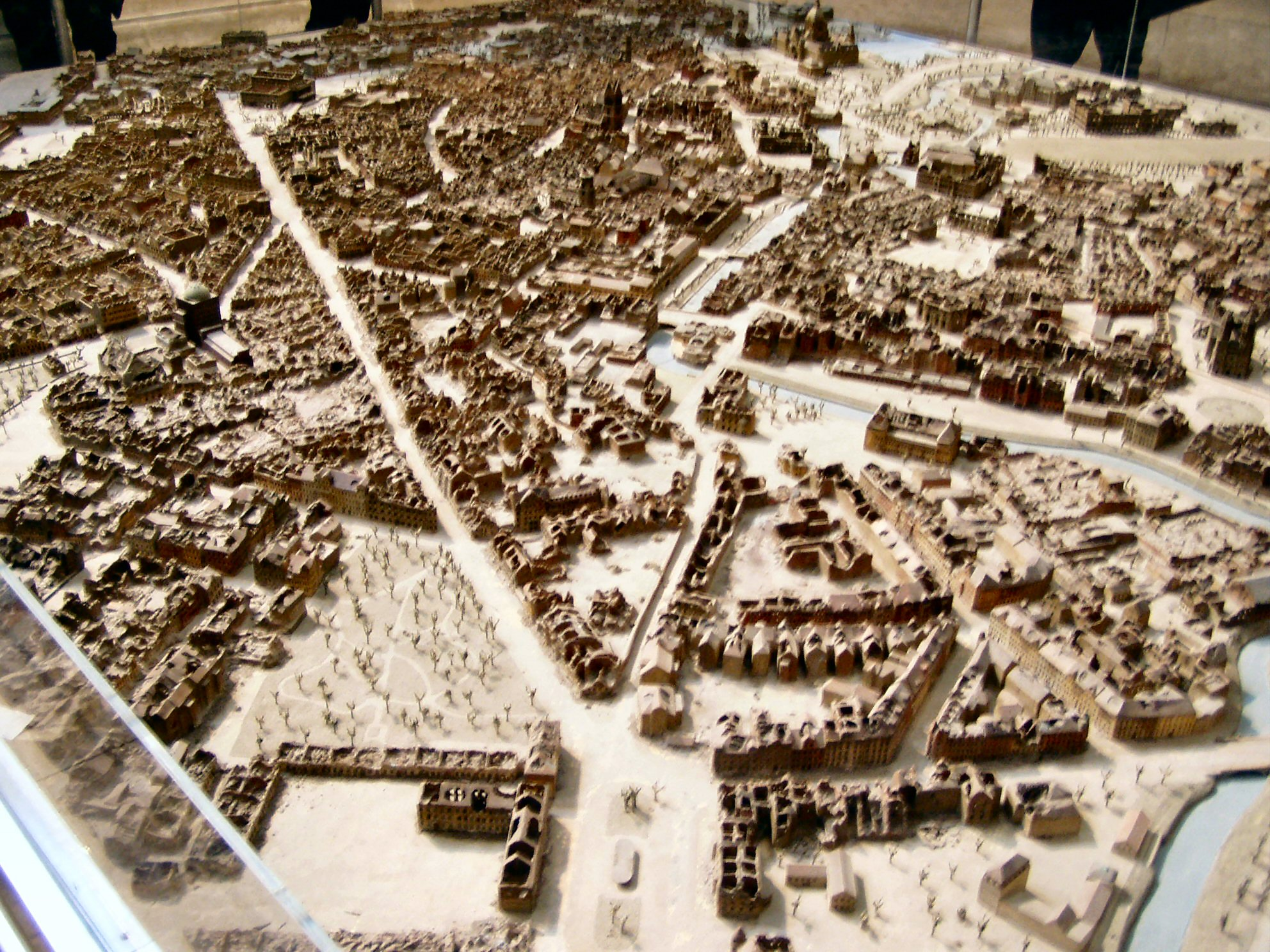 Picture taken during this meeting.